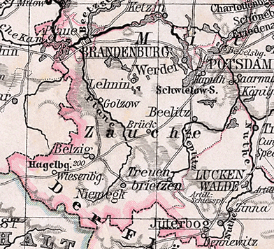 Detail from a map of Brandenburg.